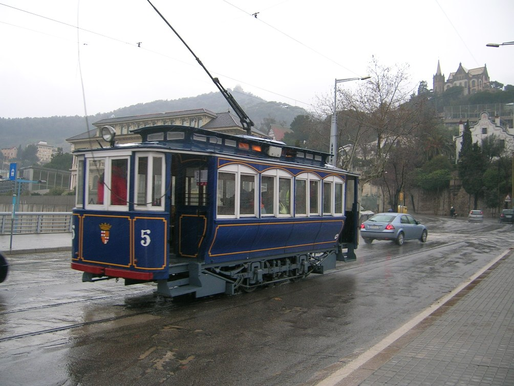 Tramvia Blau ("Blue tramway") while crossing the bridge above Ronda de Dalt (ring-road in Barcelona, Catalonia).